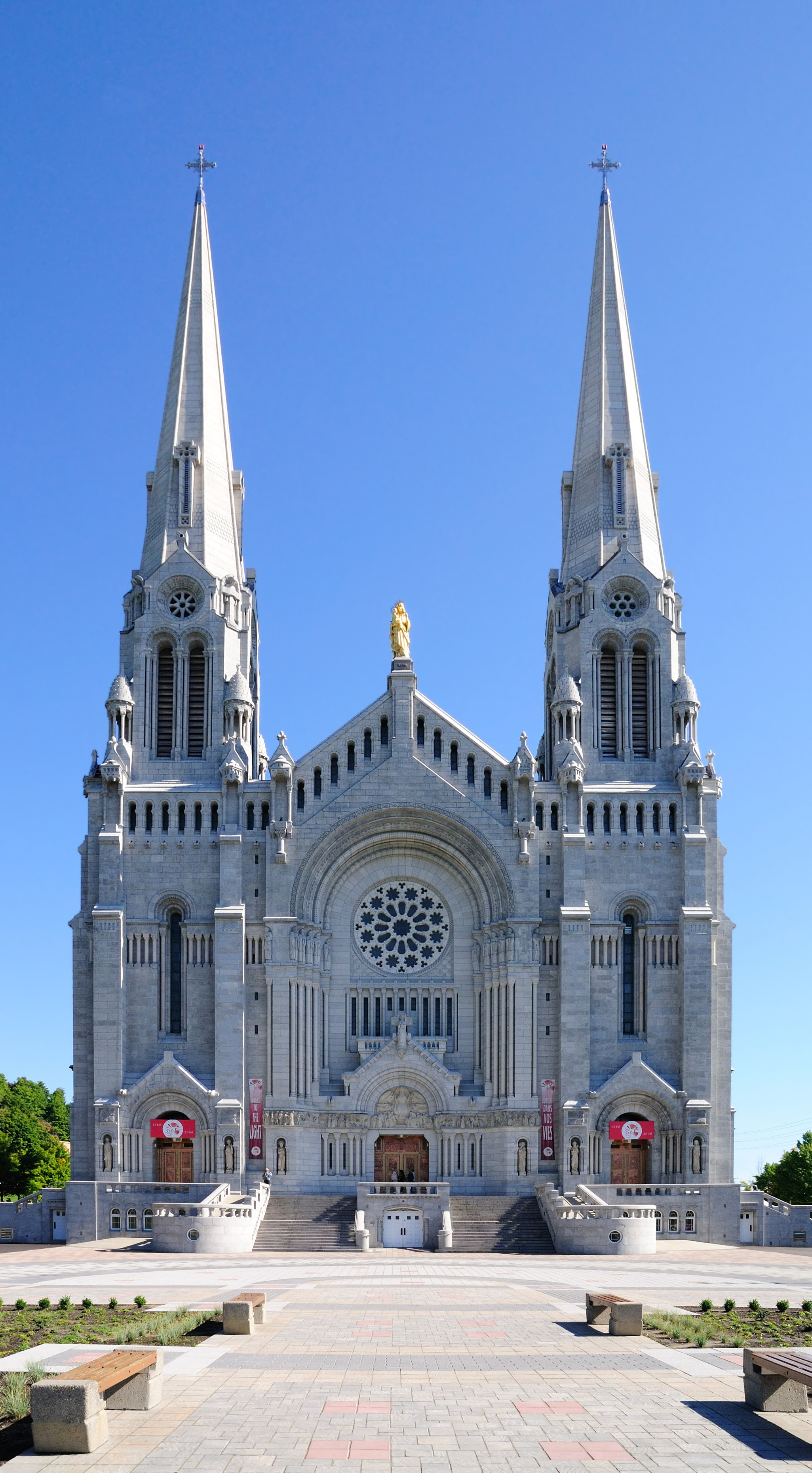 Basilica of Sainte-Anne-de-Beaupré